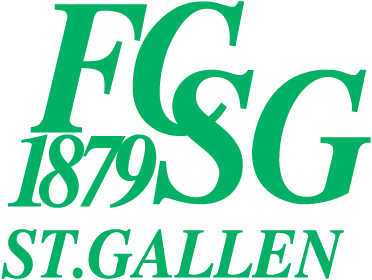 The logo of FC St. Gallen from 2001-2008